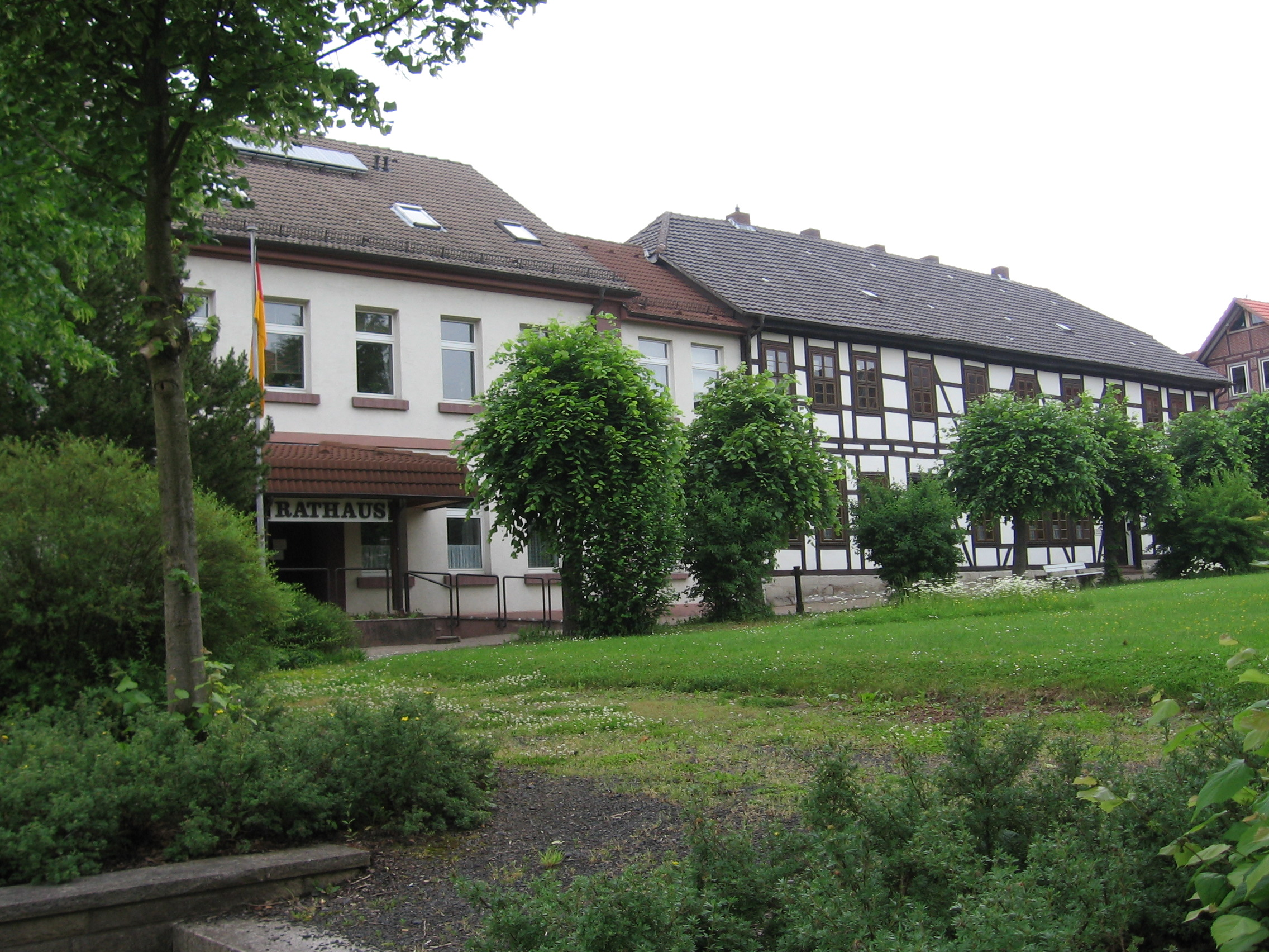 Town hall of Dransfeld